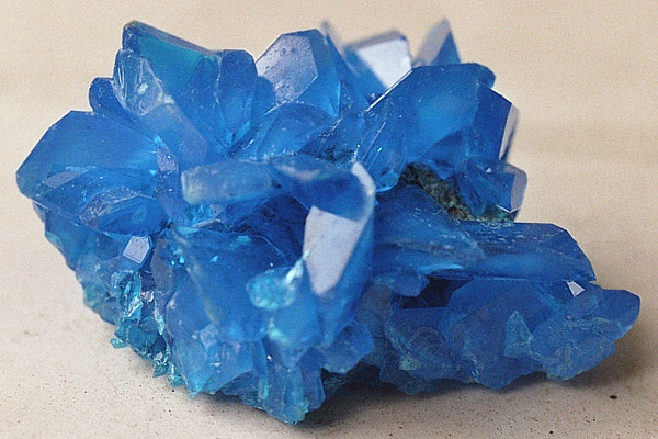 copper sulfate, Mineral name: Chalcanthite